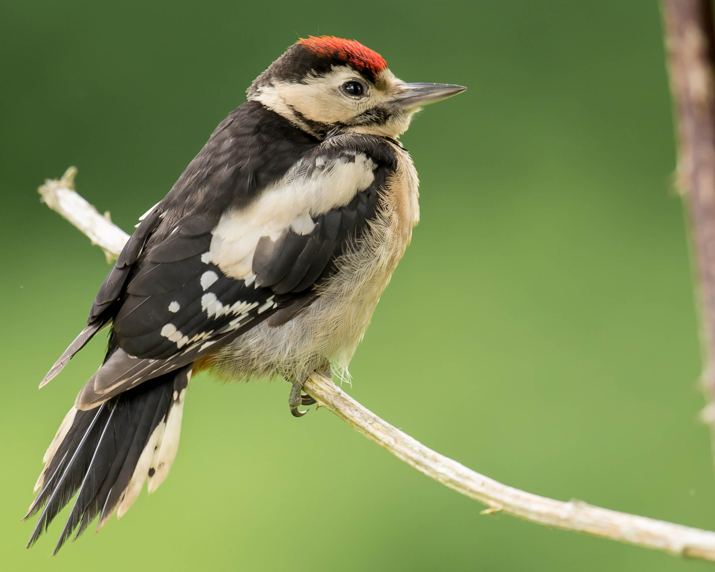 Juvenile of Great Spotted Woodpecker Dendrocopos major near Romsey, Hampshire, England